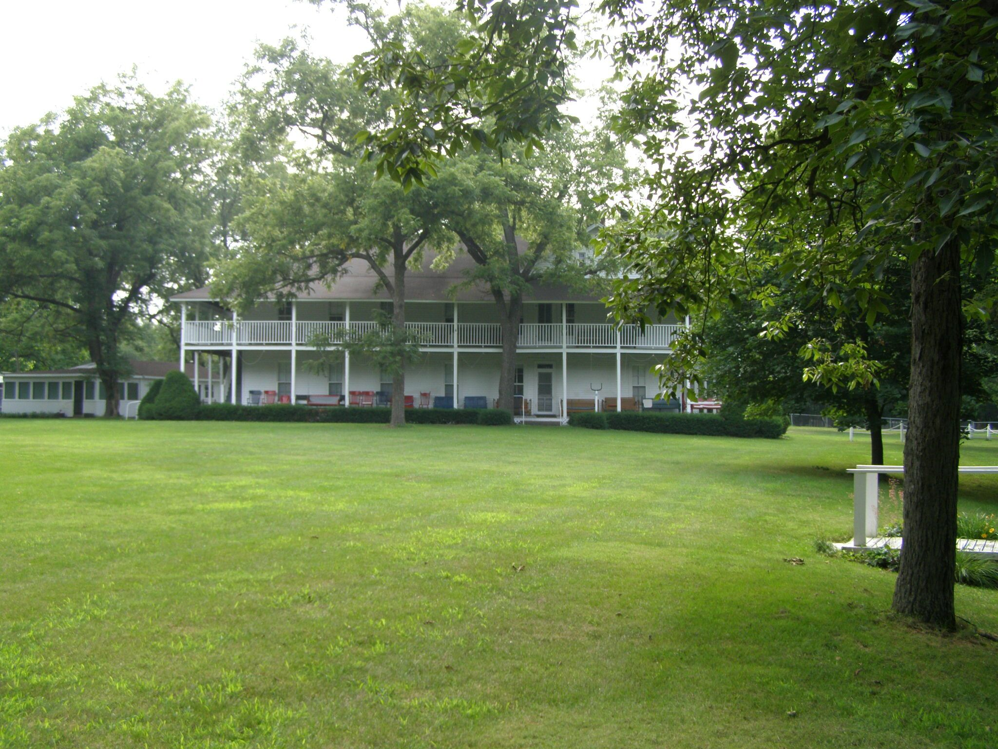 Main Lodge at Fountain Park Chatauqua, Indiana